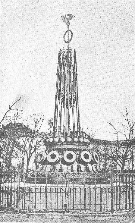 The formerly monument of Marshal Wilhelm Courbiere in Grudziądz, by Karl Friedrich Schinkel, 1815